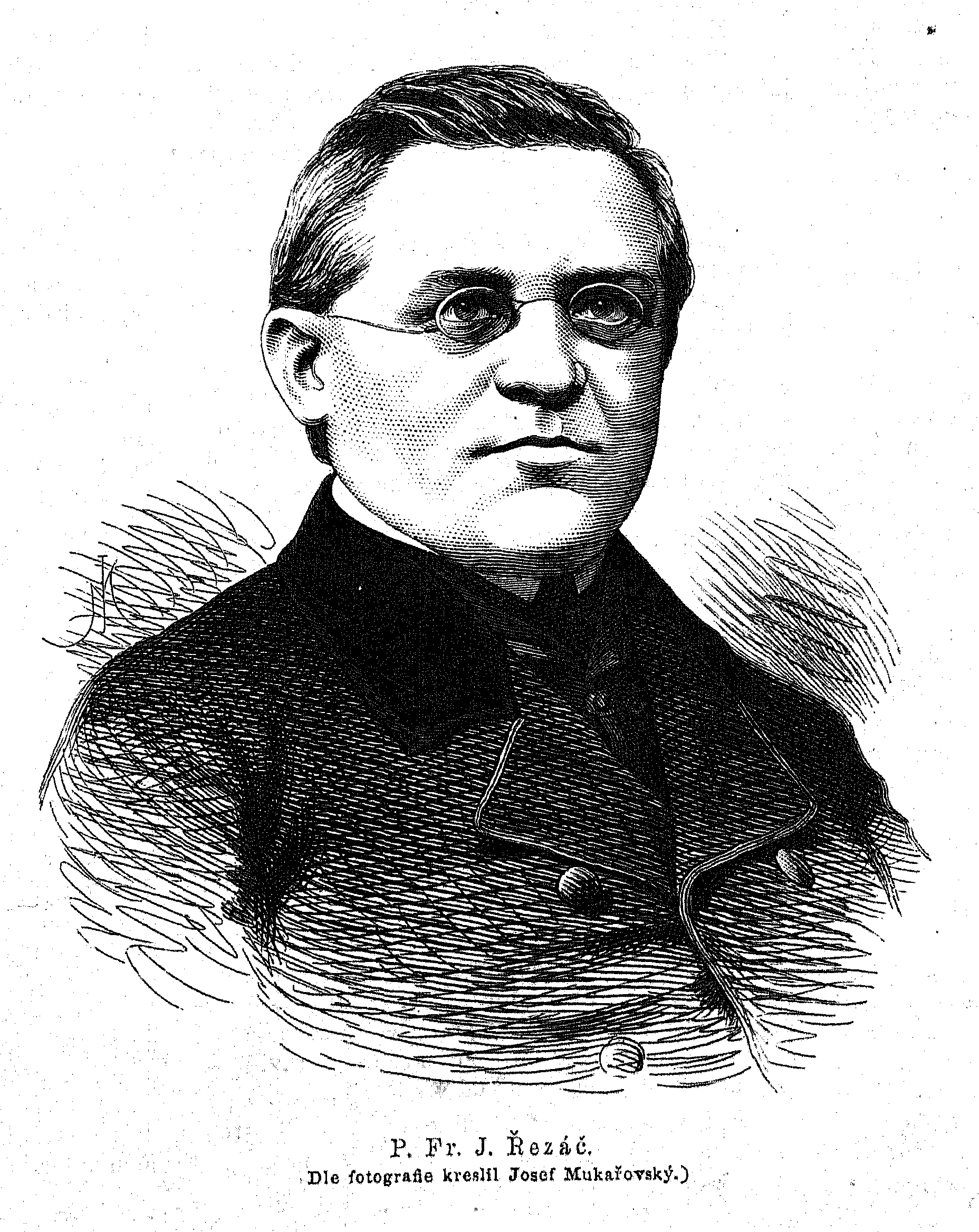 Portrait of František Josef Řezáč (1819-1879), Czech priest, teacher and writer.